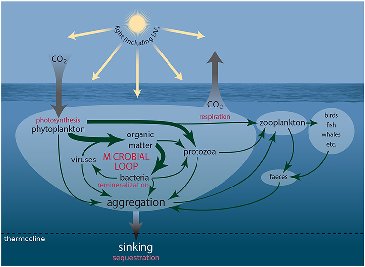 Marine export production. Schematic showing the connections amongst members of the microbial food web and microbial loop and the processes driving carbon transfer to higher trophic levels and flux to the deep ocean.